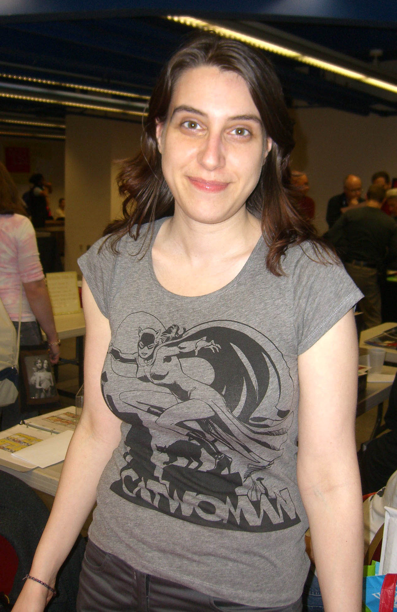 Comic book creator Valerie D’Orazio at the November 2008 Big Apple Convention in Manhattan. This photo was created by Luigi Novi. It is not in the public domain, and use of this file outside of the licensing terms is a copyright violation.